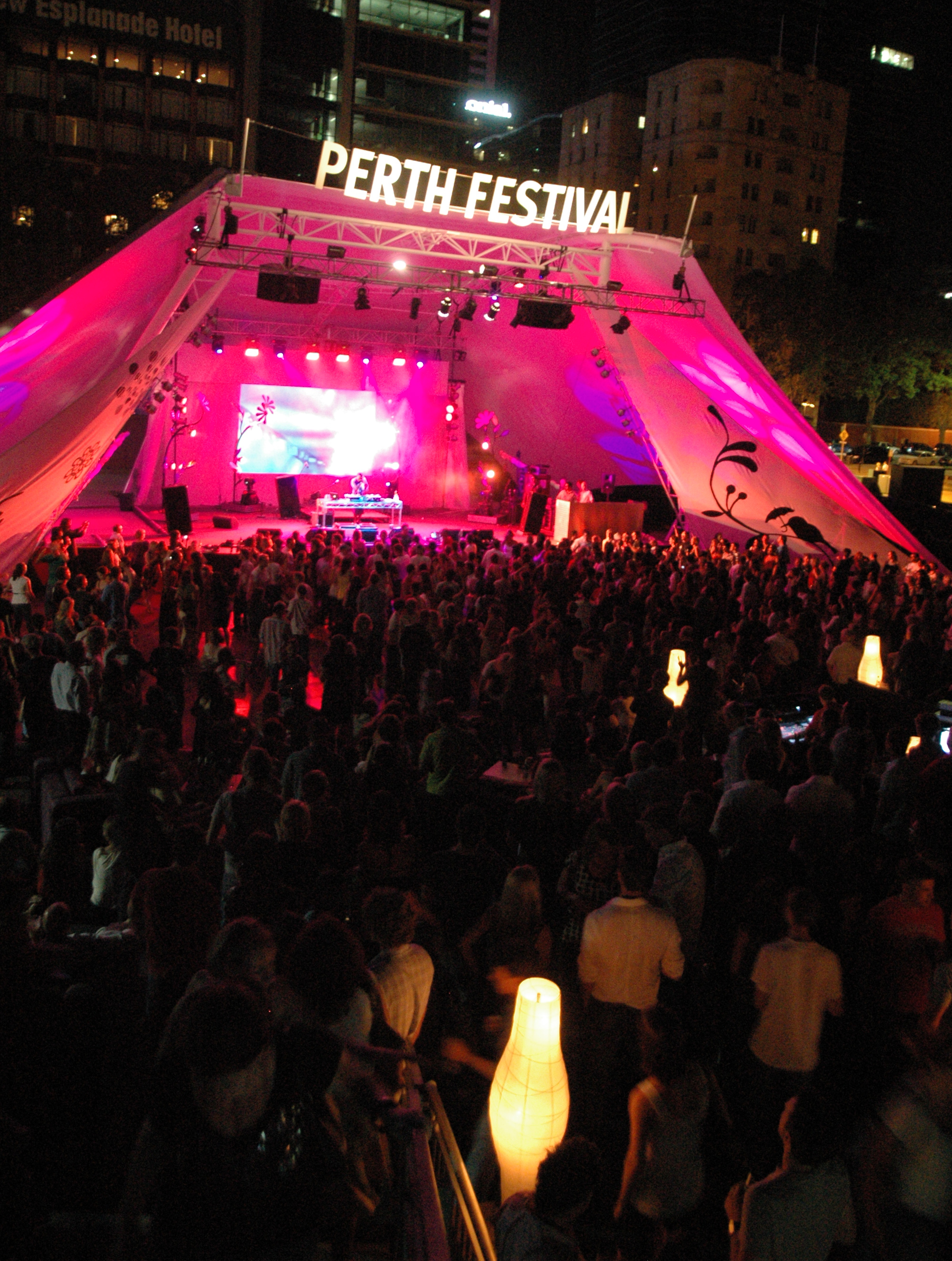 Crowd at Beck's Music Box on the Esplanade in 2008